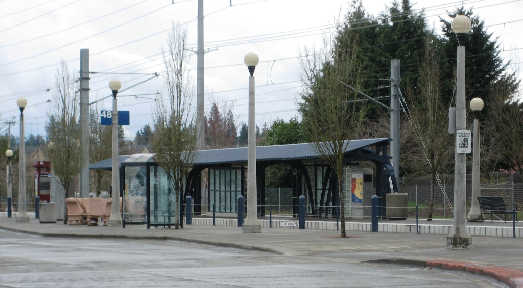 Willow Creek/185th MAX station in eastern Hillsboro, Oregon